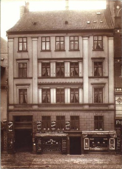 House at Vesterbrogade 40. Demolished 1907 to make way for Det Ny Teater (The New Theatre).